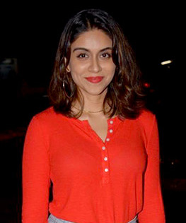 Zoa Morani and others grace Zaheer Iqbal’s birthday bash at Arth Bandra